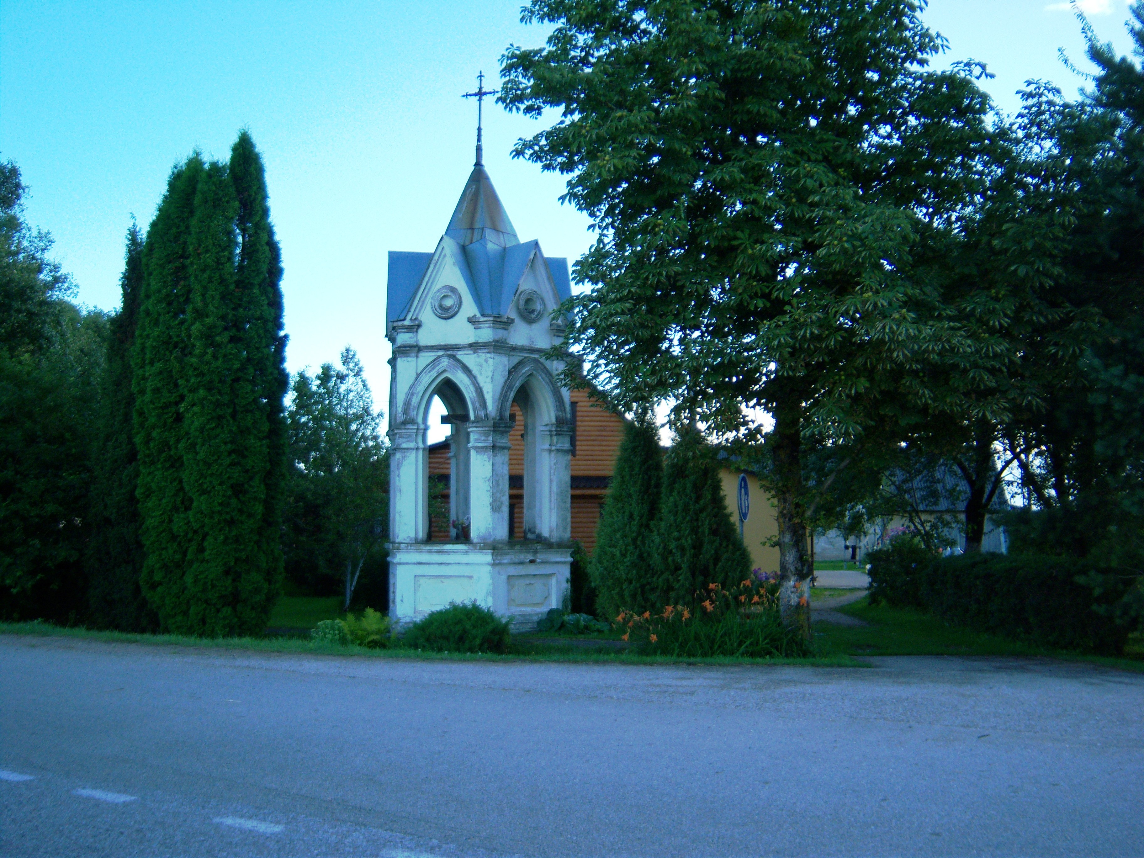 Pienionys Chapel, Anykščiai District, Lithuania